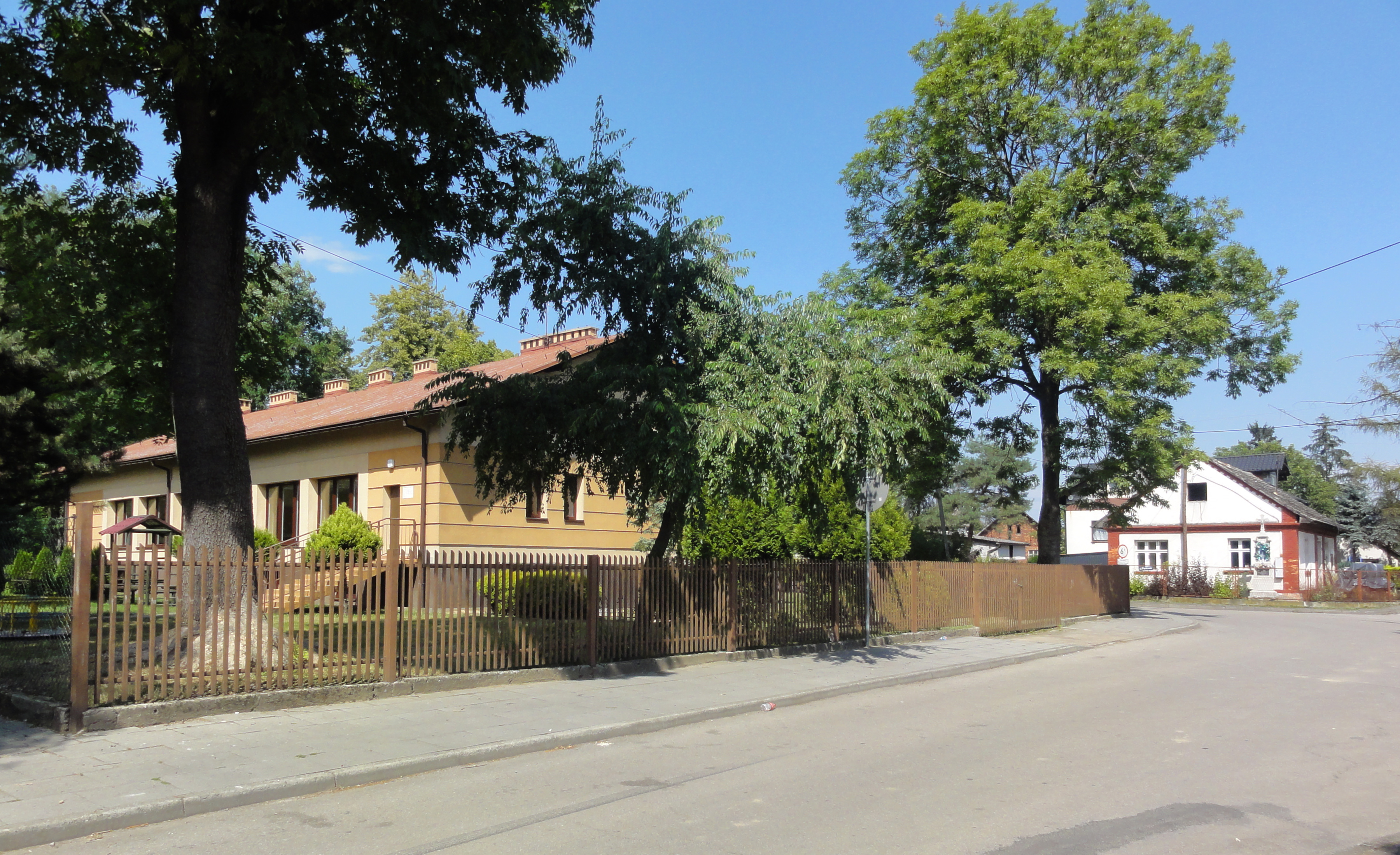 Łęki, School and Kindergarten